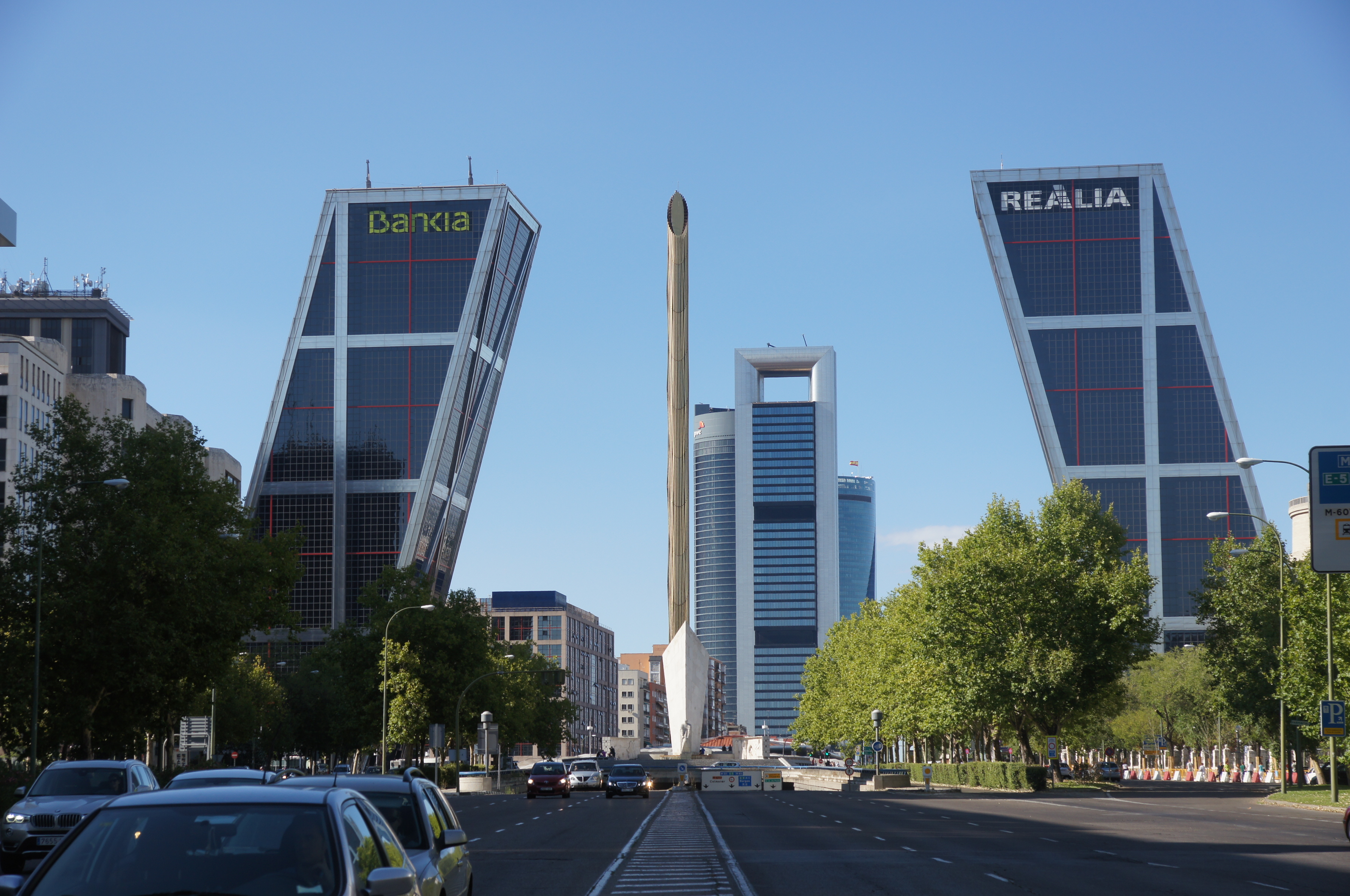 Gate of Europe in 2014